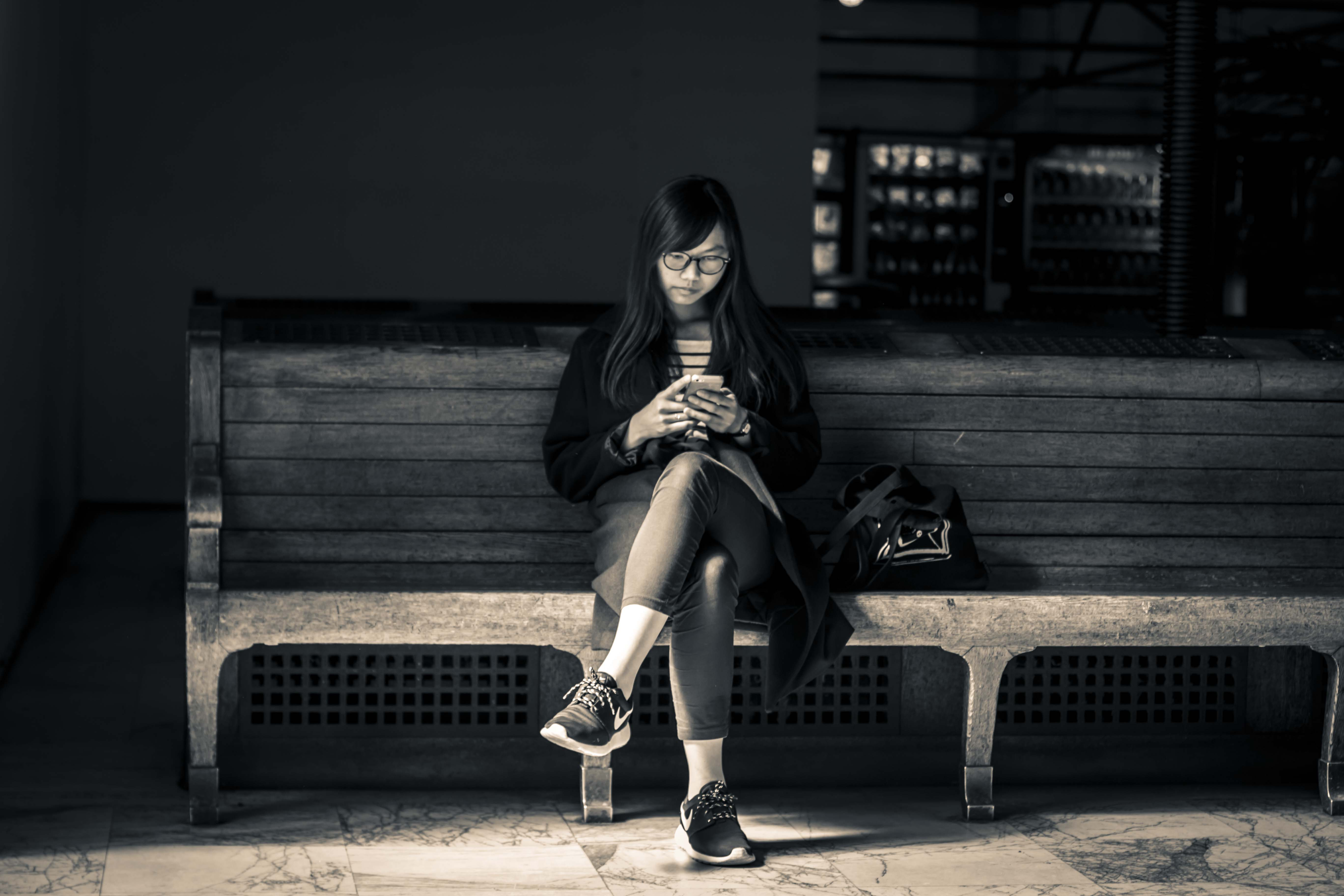 Amtrak Station